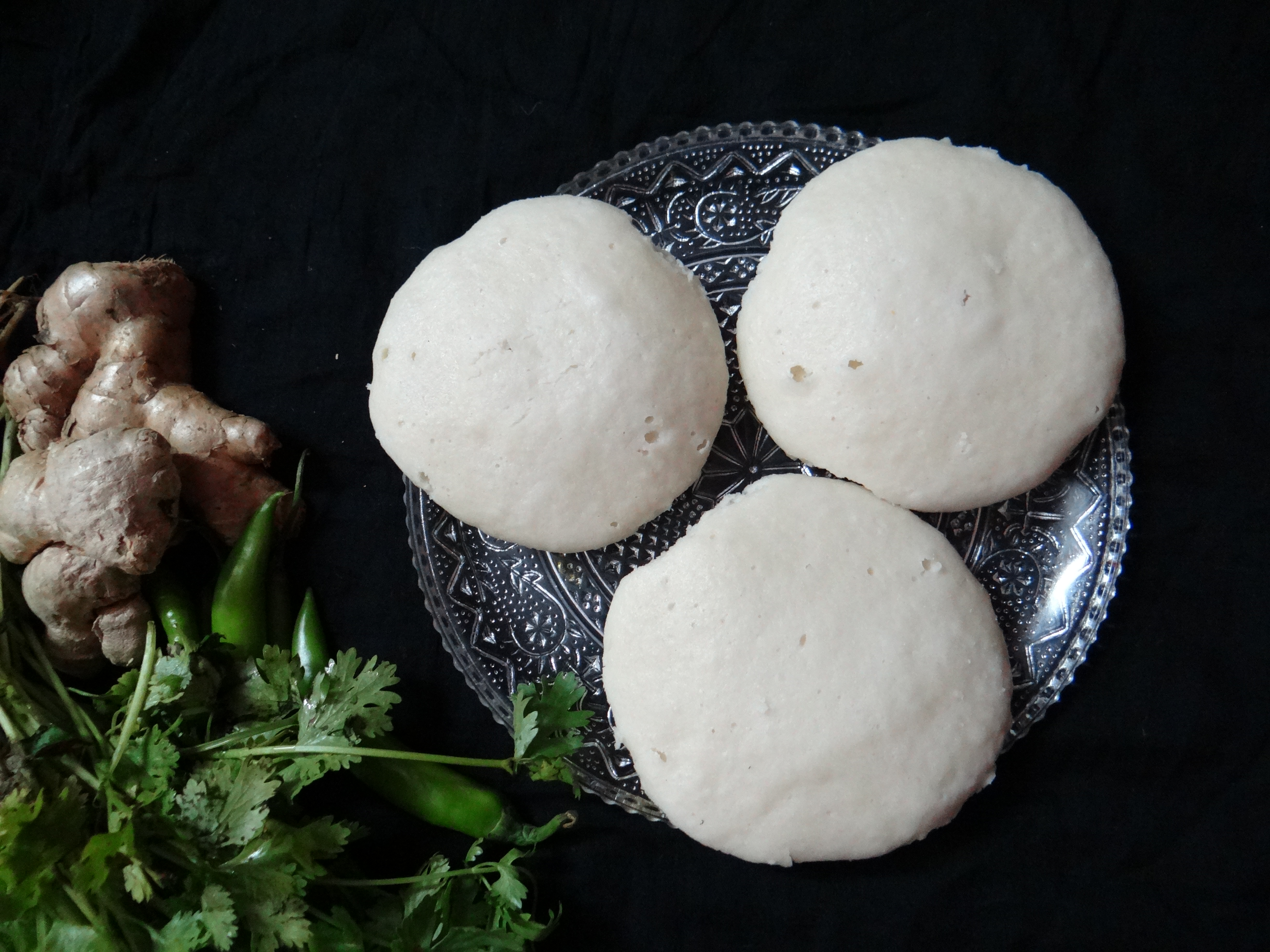 Idli is a traditional food made with the ground rice and urad dal, in South Indian homes, also love to eat rest of India.